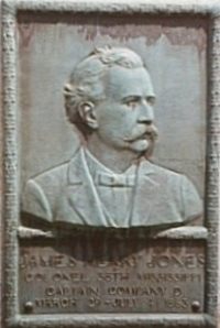 Relief portrait of Col. James Henry Jones by T. A. R. Kitson at Vicksburg National Military Park, erected in 1911, NPS image.